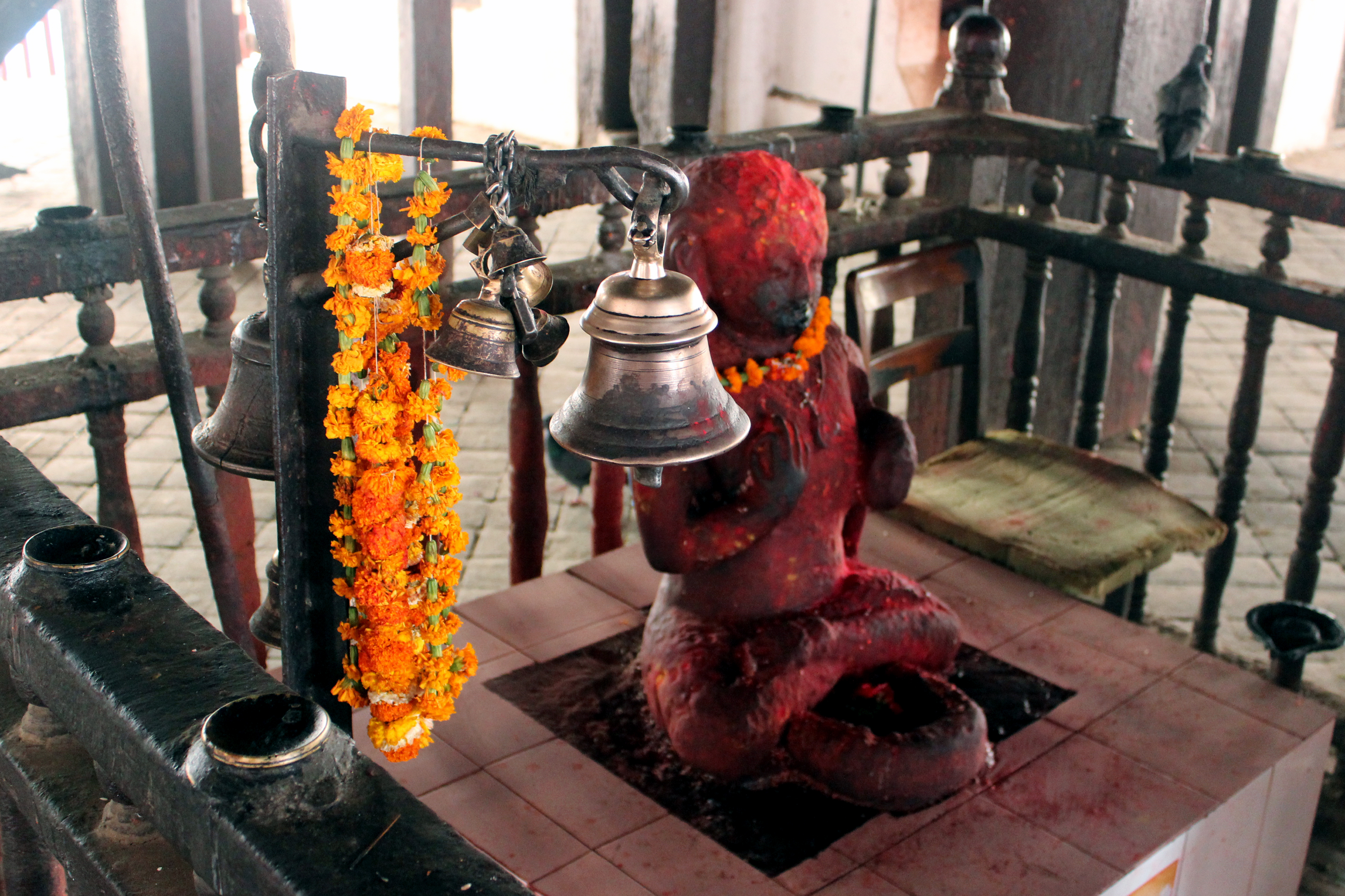 Shrine, consecrated to Gorakshanath, inside the Kasthamandap, house and temple at the Durbar Square, in Kathmandu, Nepal